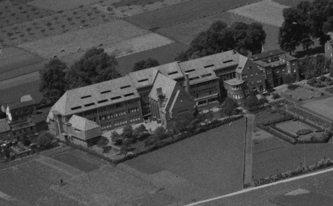 Aerial photograph of Maastricht, The Netherlands